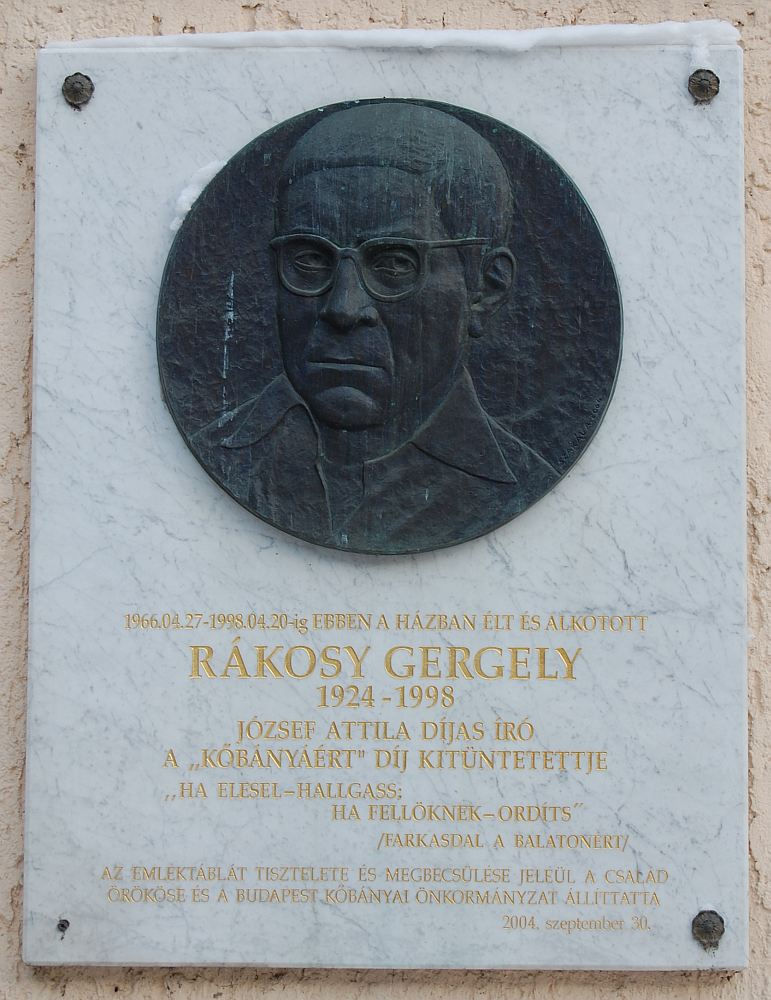 Gergely Rákosy commemorative plaque in Budapest District X, Harmat Street No 78.